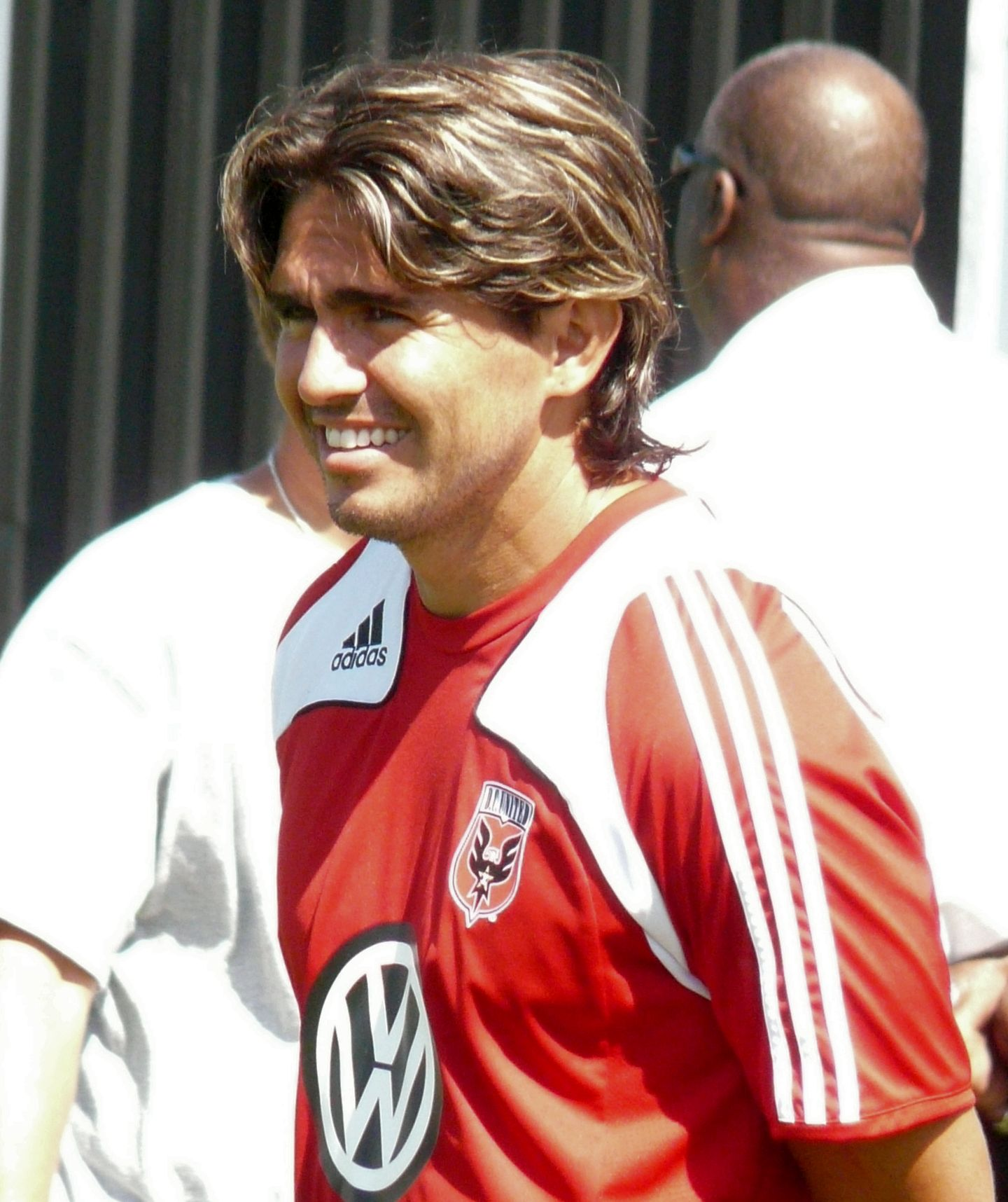 Jaime Moreno watches a Major League Soccer (MLS) Reserve Division match between D.C. United and Kansas City Wizards at RFK Auxiliary Field, Washington, DC.